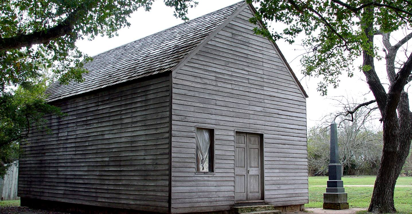 Washington-on-the-Brazos (also known as Washington) is an unincorporated area along the Brazos River in Washington County, Texas, United States. Founded when Texas was still a part of Mexico, the settlement was the site of the Convention of 1836 and the signing of the Texas Declaration of Independence. The name "Washington-on-the-Brazos" was used to distinguish the settlement from "Washington-on-the-Potomac"—i.e., Washington, D.C. (Wikipedia)